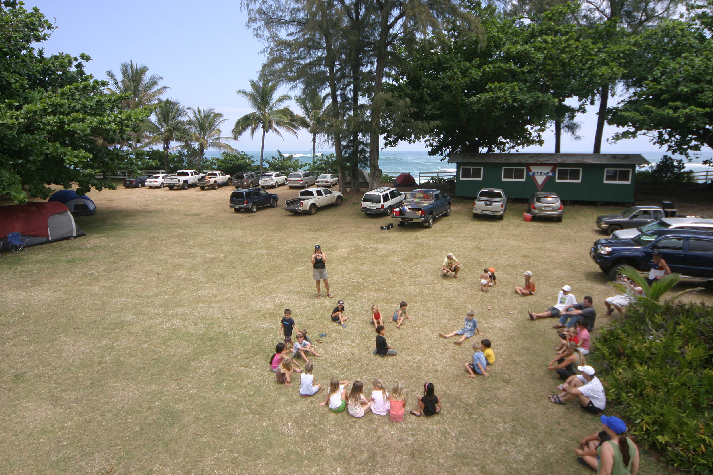 View of Camp Naue YMCA, children playing Duck Duck Goose